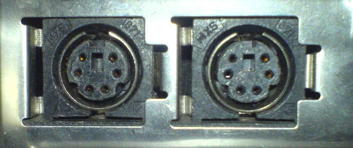 IBM Personal System/2 Model 70 PS/2 ports